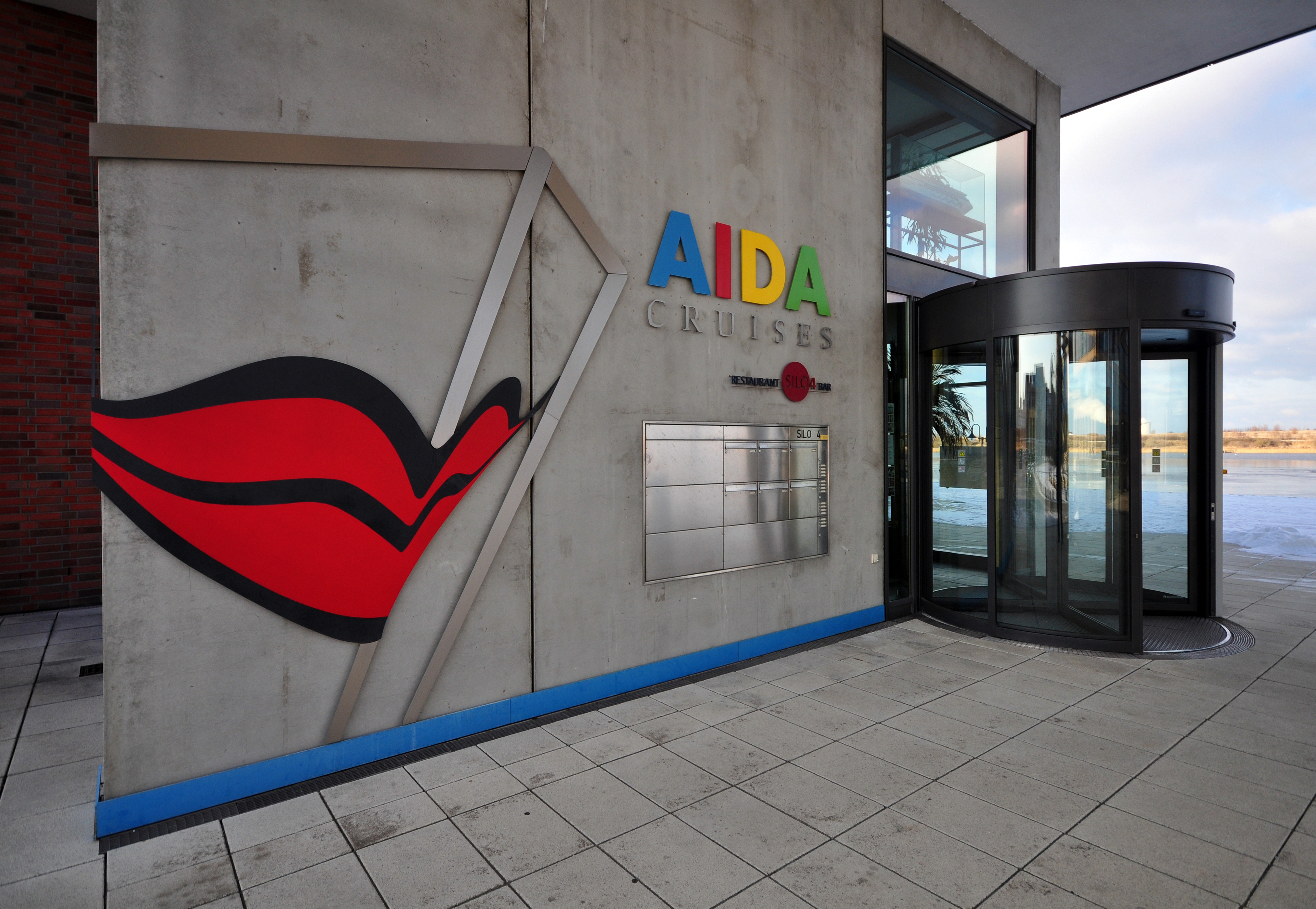 AIDA Cruises based in Rostock, Germany